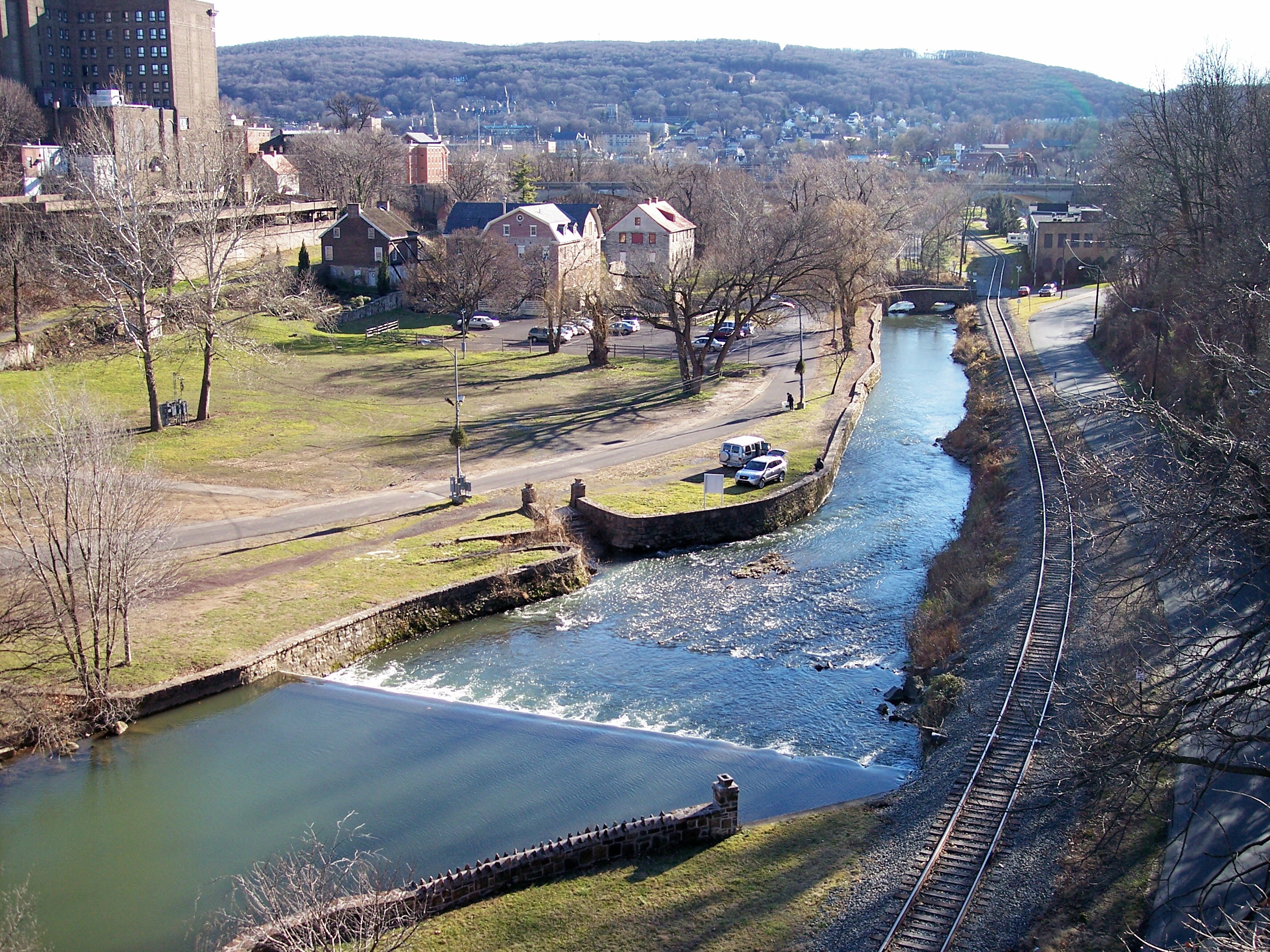 Monocacy Creek in Bethlehem, Pennsylvania, as viewed downstream from West Broad Street.